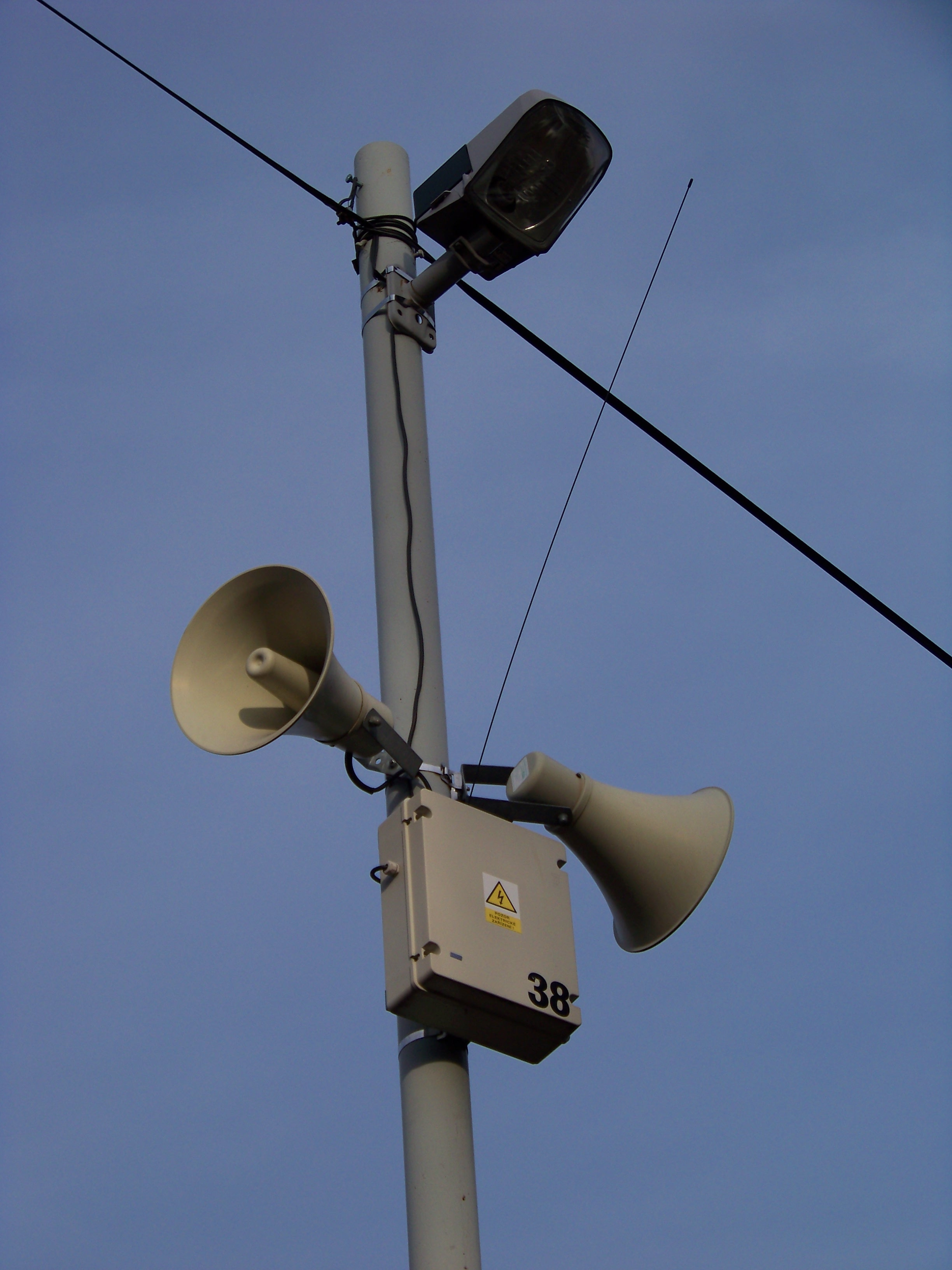 Mníšek pod Brdy, Prague-West District, Central Bohemian Region, the Czech Republic. K Remízku Street. A streetlamp and public address speakers